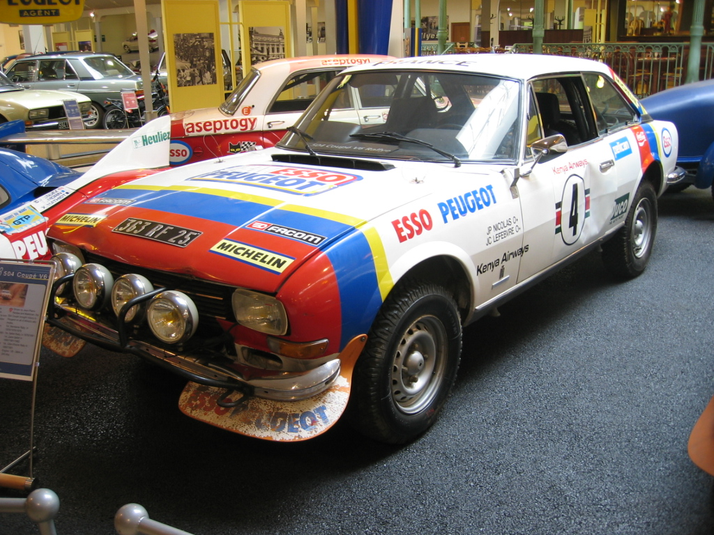 Peugeot 504 rallyes africains - Musée Peugeot Sochaux. The Peugeot 504 V6 Coupé with which Jean-Pierre Nicolas and Jean-Claude Lefèbvre won the 26th Safari Rally in 1978.